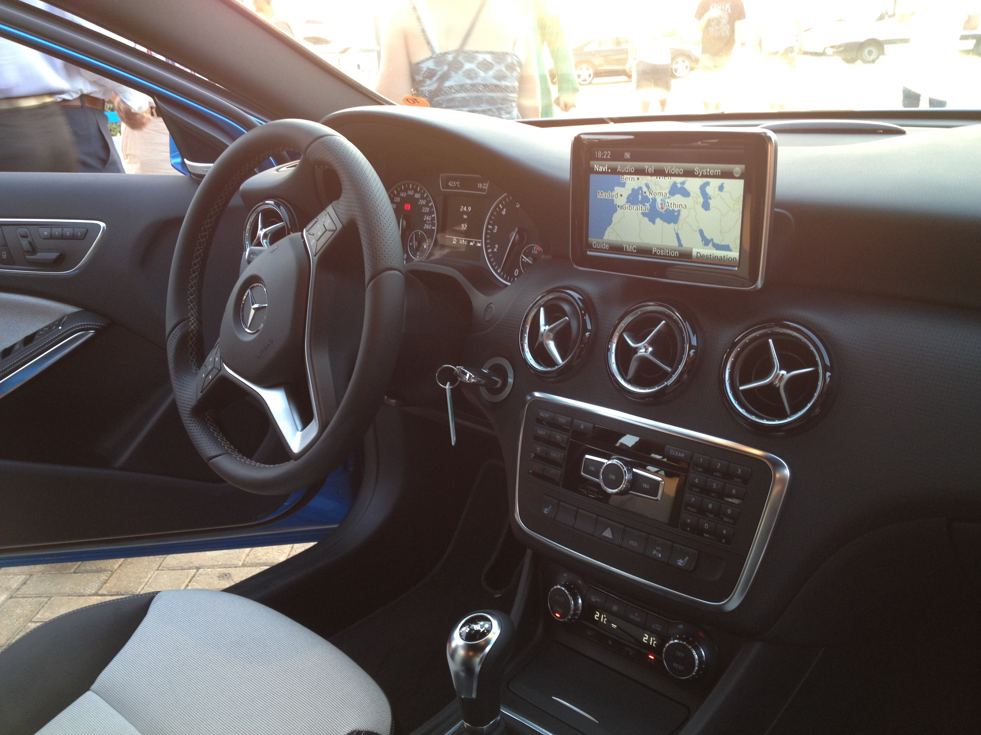 Mercedes A-Class 2012.